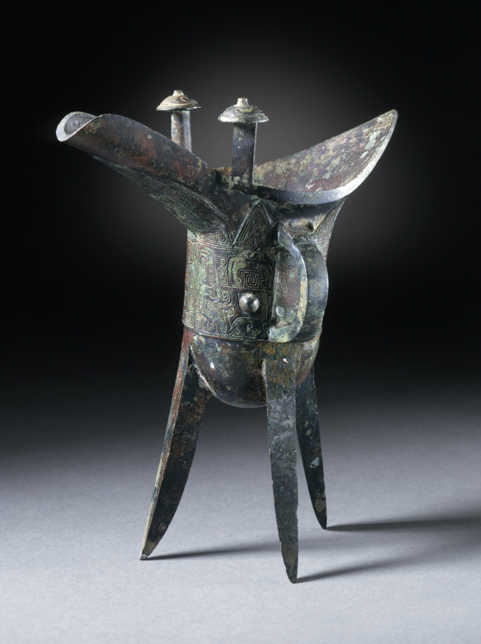 China, Late Shang dynasty, Anyang phase, about 1300-1050 B.C. Tools and Equipment; warmers Cast bronze 7 1/4 x 6 x 3 3/4 in. (18.42 x 15.24 x 9.53 cm) Estate of Charles K. Feldman (M.68.60.7) Chinese Art Currently on public view: Hammer Building, floor 2